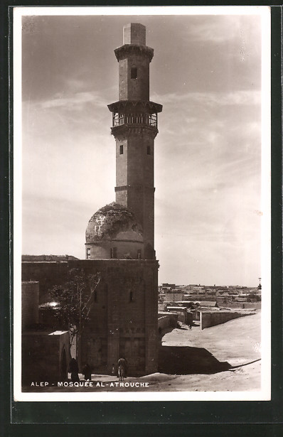 Mosquée al-Atrouche à Alep (Syrie). Carte postale des années 1920.